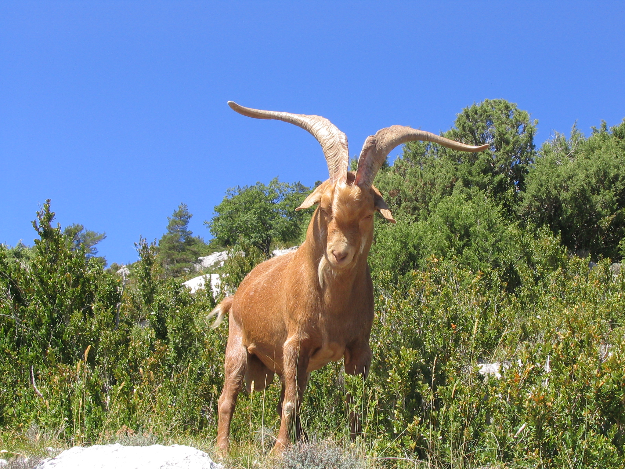 Capra aegagrus hircus, male (Goat; Hausziege, Rasse: Rove-Ziege), picture taken in the mountains above the Gorges du Verdon, Provence, South-France. For camera information and shooting conditions see the EXIF info fields, contained in the file.